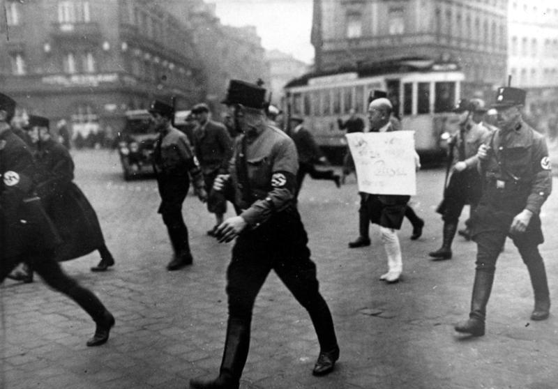 Munich, Bahnhofsplatz (Nord). – Barefooted jewish lawyer Dr Michael Siegel under guard by the Schutzstaffel, carrying a board (text unreadable, only “Polizei” noticable, comp. to Bild 183-R99542: “I will never complain to the police again”), walking over the Bahnhofsplatz.